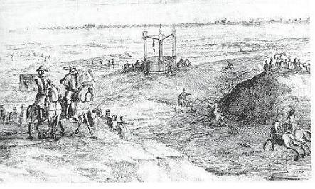 Gallowfield on Vughterheide of the city Den Bosch